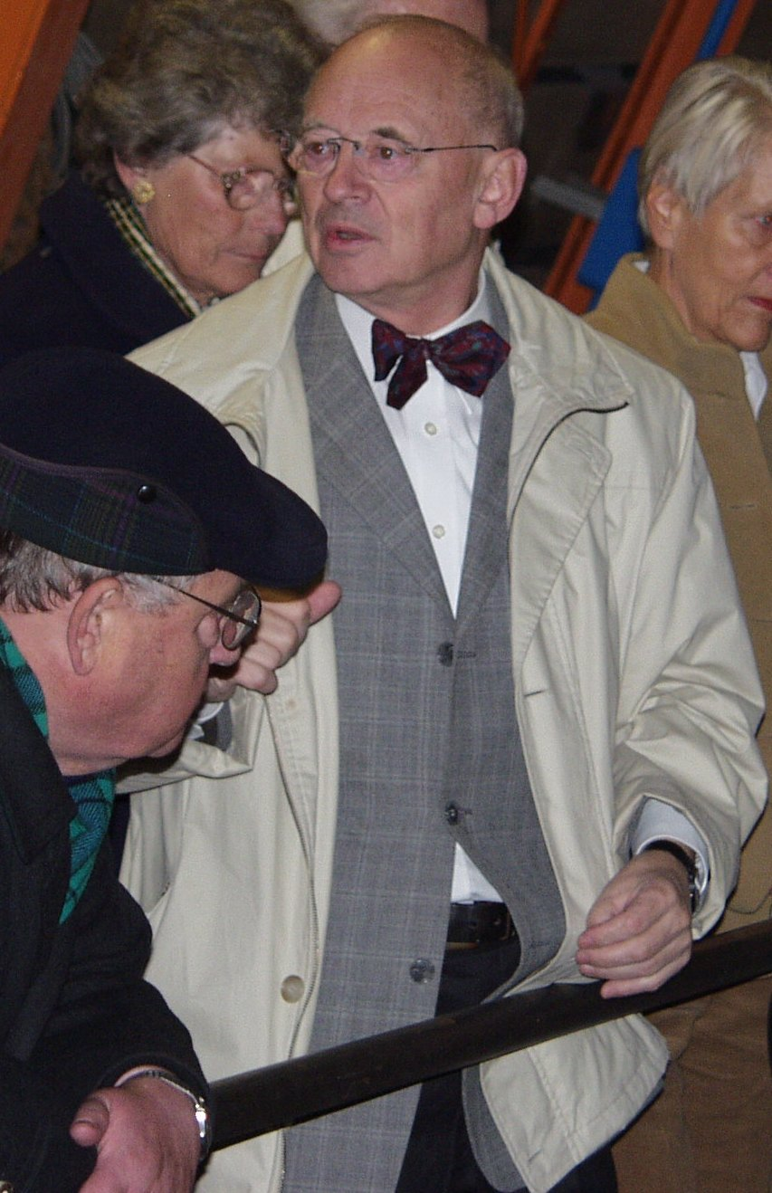 Prof.Dr. Arnold Wolff, former Cathedral-Master-Builder of Cologne